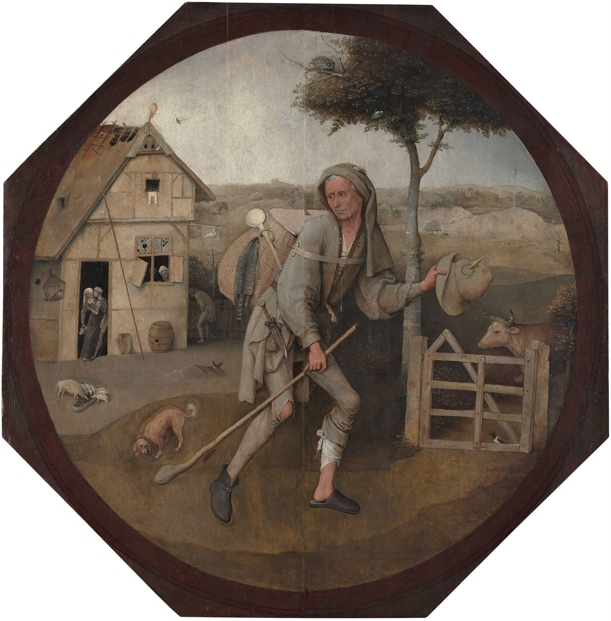 A thin man wearing grey clothes is walking, holding his hat in his left hand. In his right hand he is holding a stick fending off an angry dog. On his back he is carrying a large basket. This type of basket was normally used by peddlers in the 16th century in the Netherlands. To the left an inn (and possibly also a brothel). To the right a path leading into a field where a cow and a magpie seem to watch the man. Above the man, in a tree, an owl is gazing at a great tit. In the background a gallows stands on a hill.